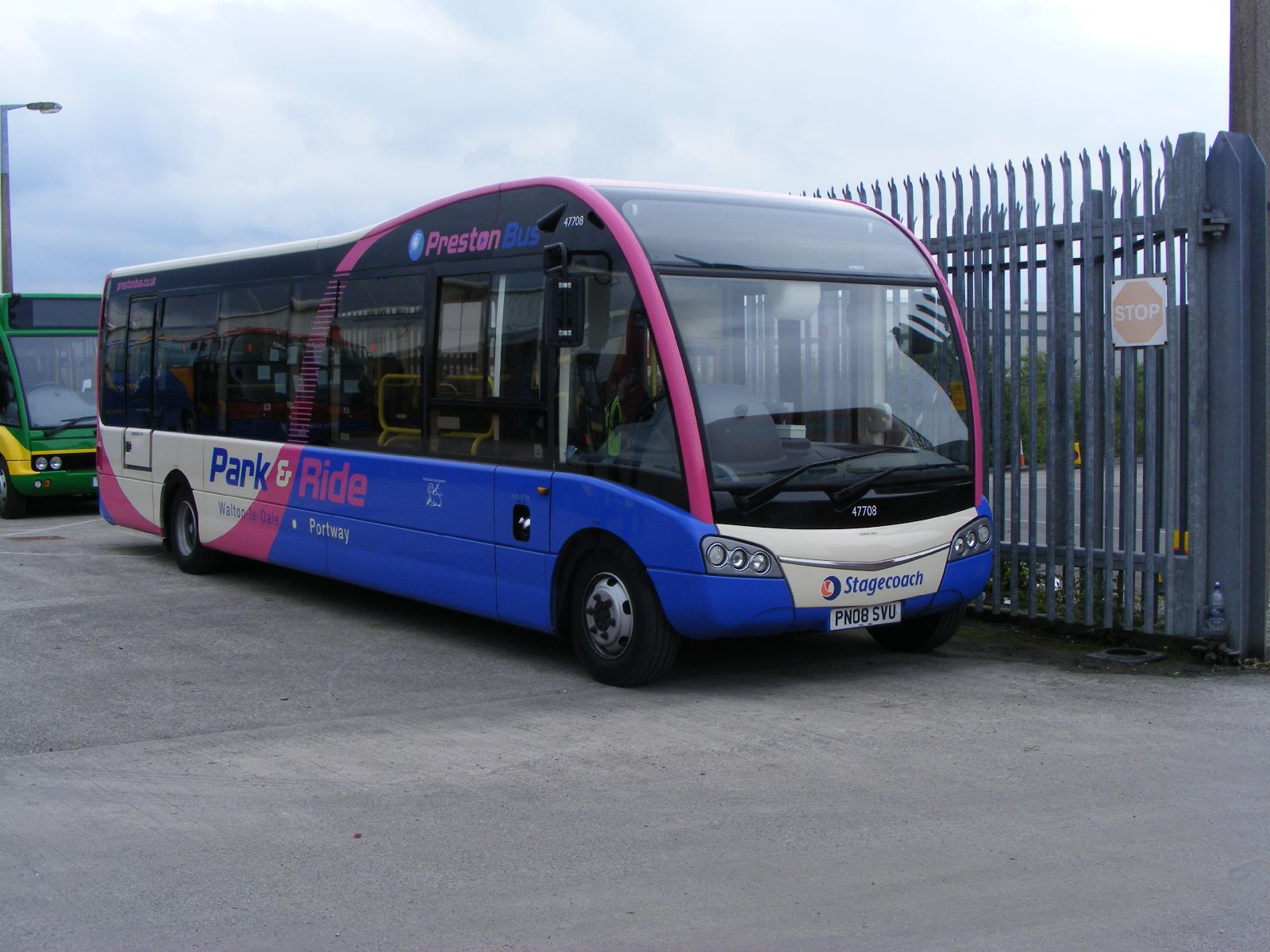 Stagecoach in Preston 40778 PN08SVU